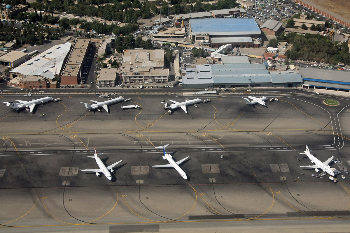 Aerial view of Mehrabad International Airport.